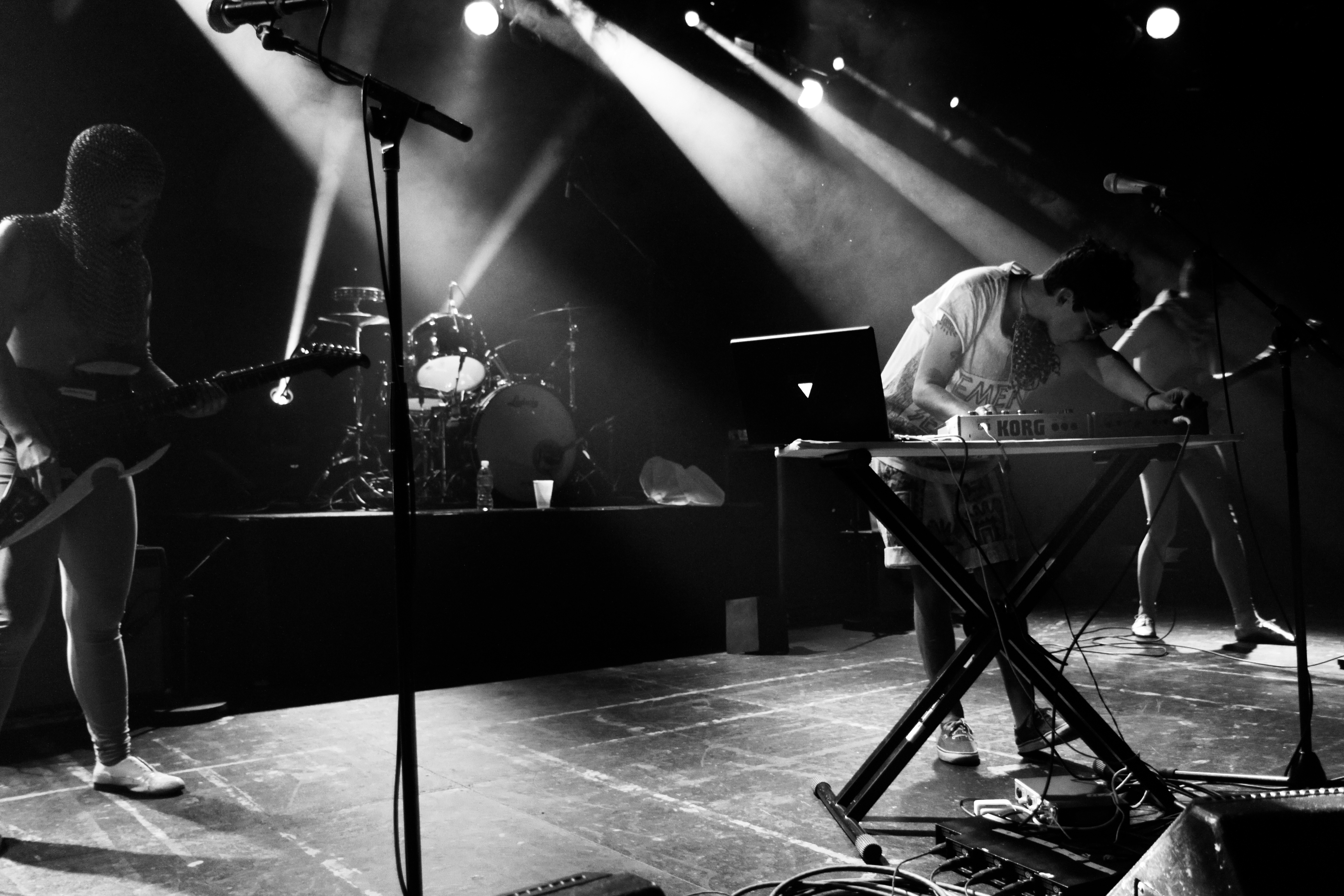 Men performing as an opening act to Gossip at the Commodore Ballroom